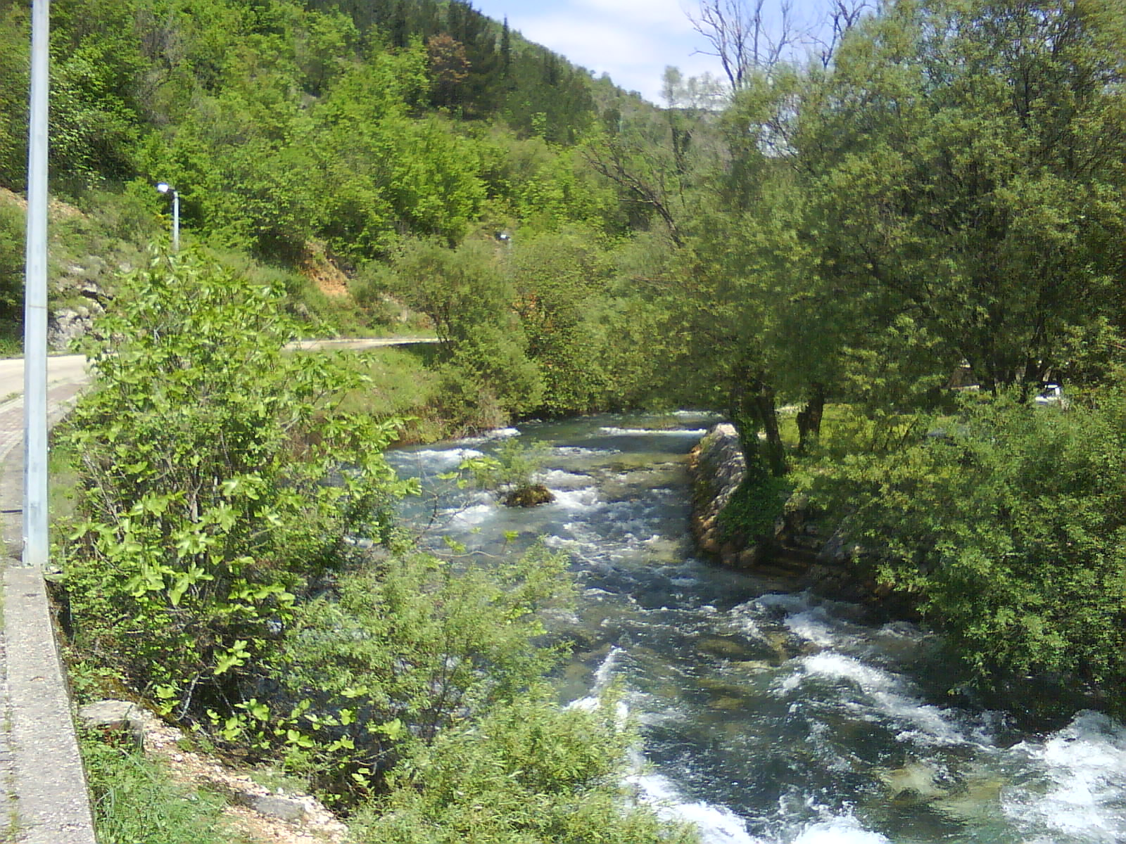 Lištica river in Široki Brijeg